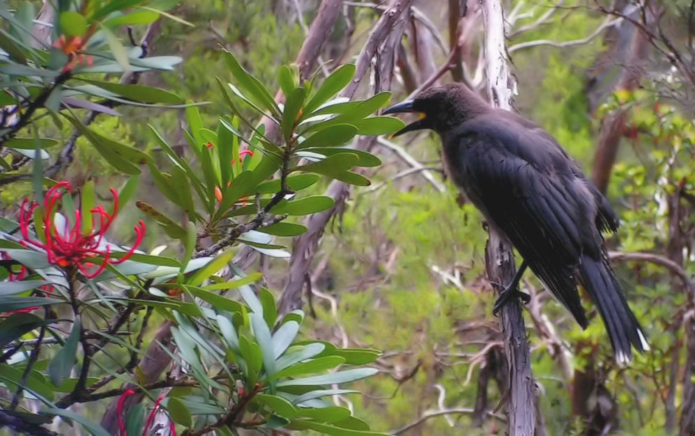 Immature Black Currawong (Strepera fuliginosa) next to Tasmanian waratah (Telopea truncata), Cradle Mountain, Tasmania